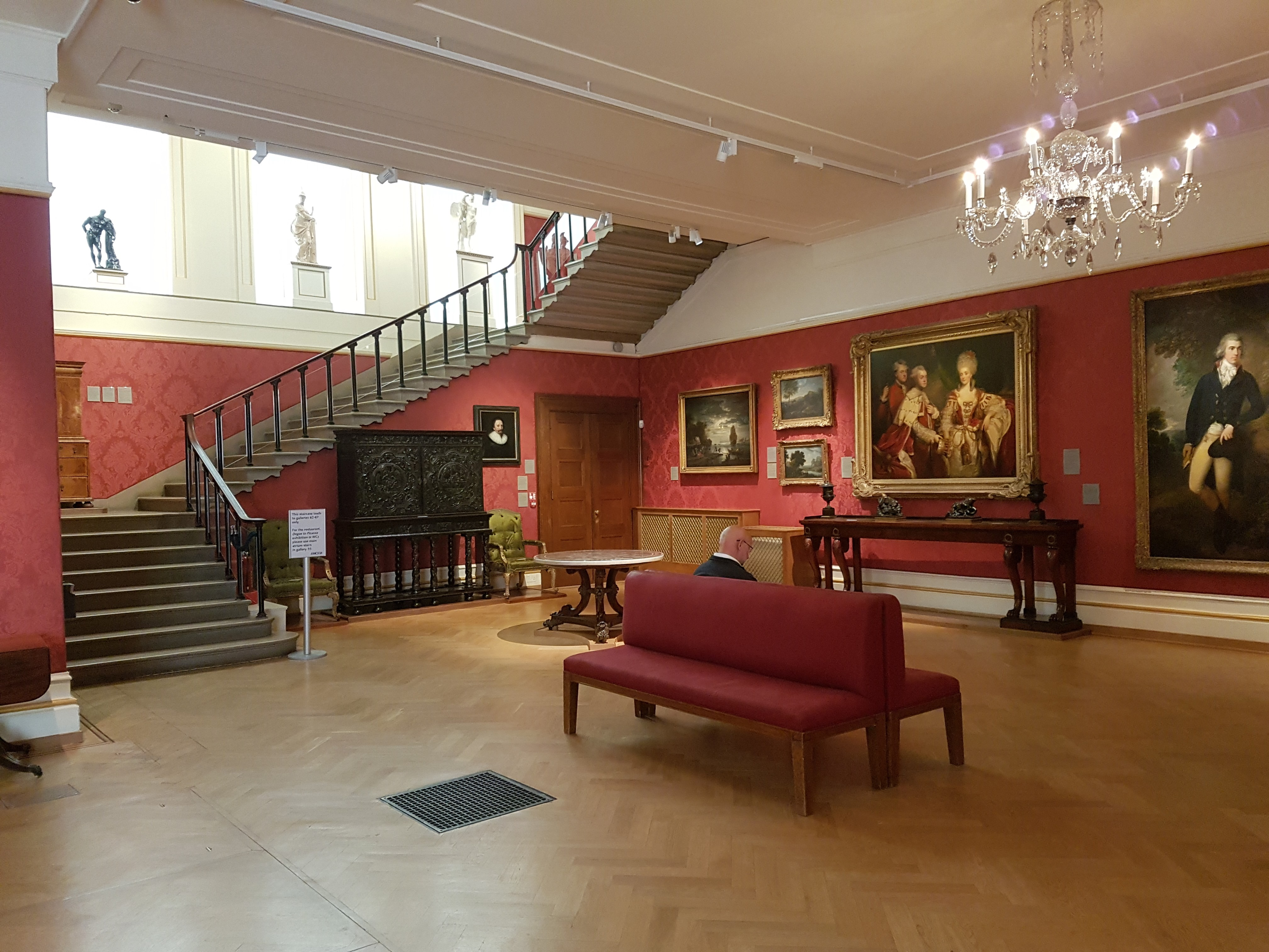 18th century paintings room view, Ashmolean Museum, Oxford